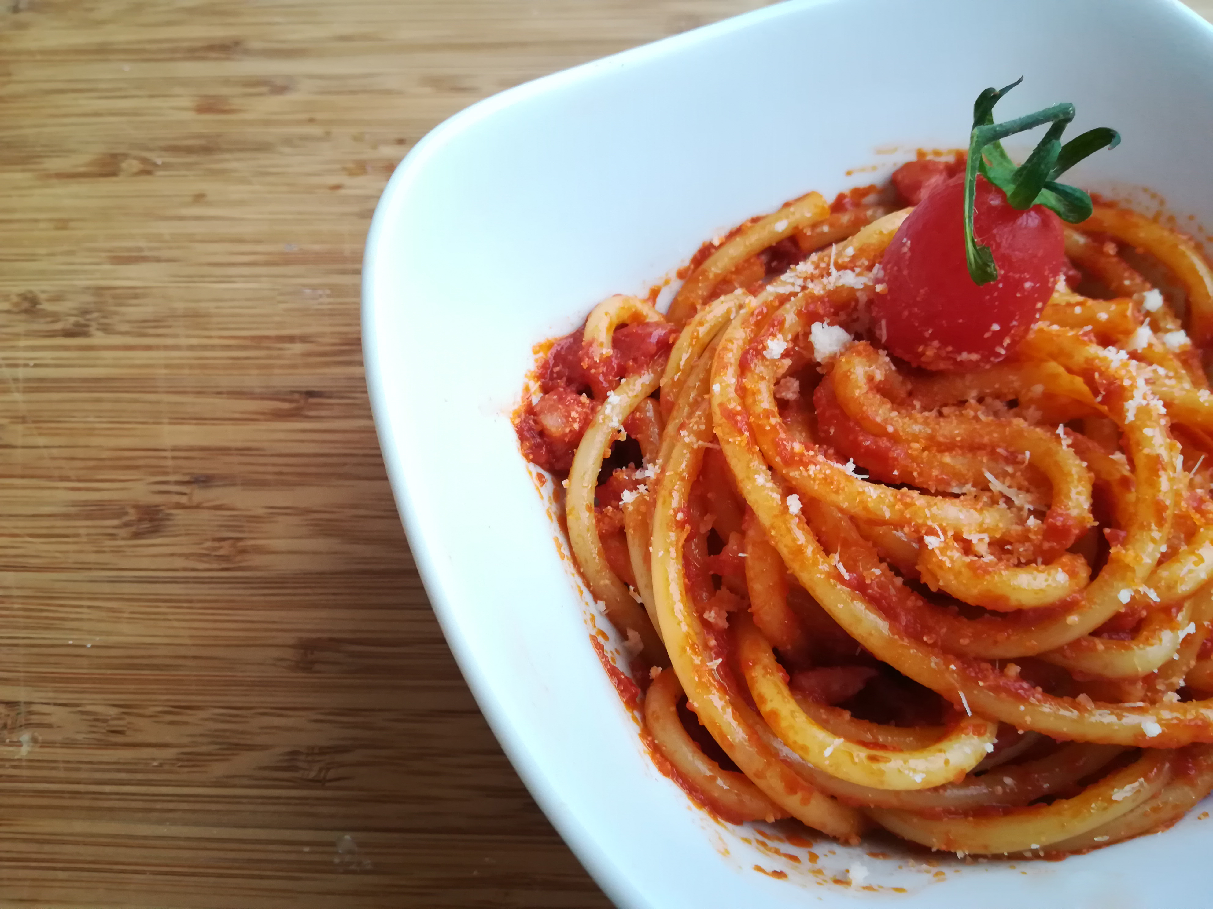 A serving of bucatini all'amatriciana, a pasta recipe from Latium.